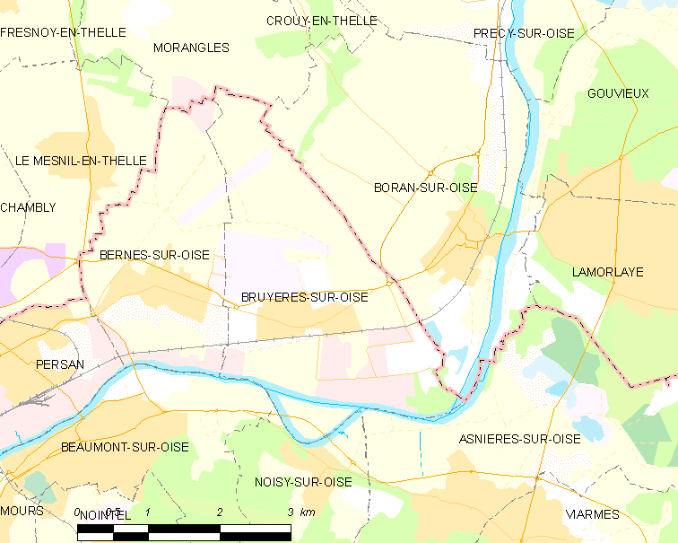 Map of French municipality Bruyères-sur-Oise